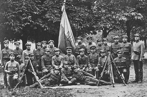 Украинская галицкая армия флаг 1918